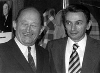 Pierre Fanlac et Pierre Seghers